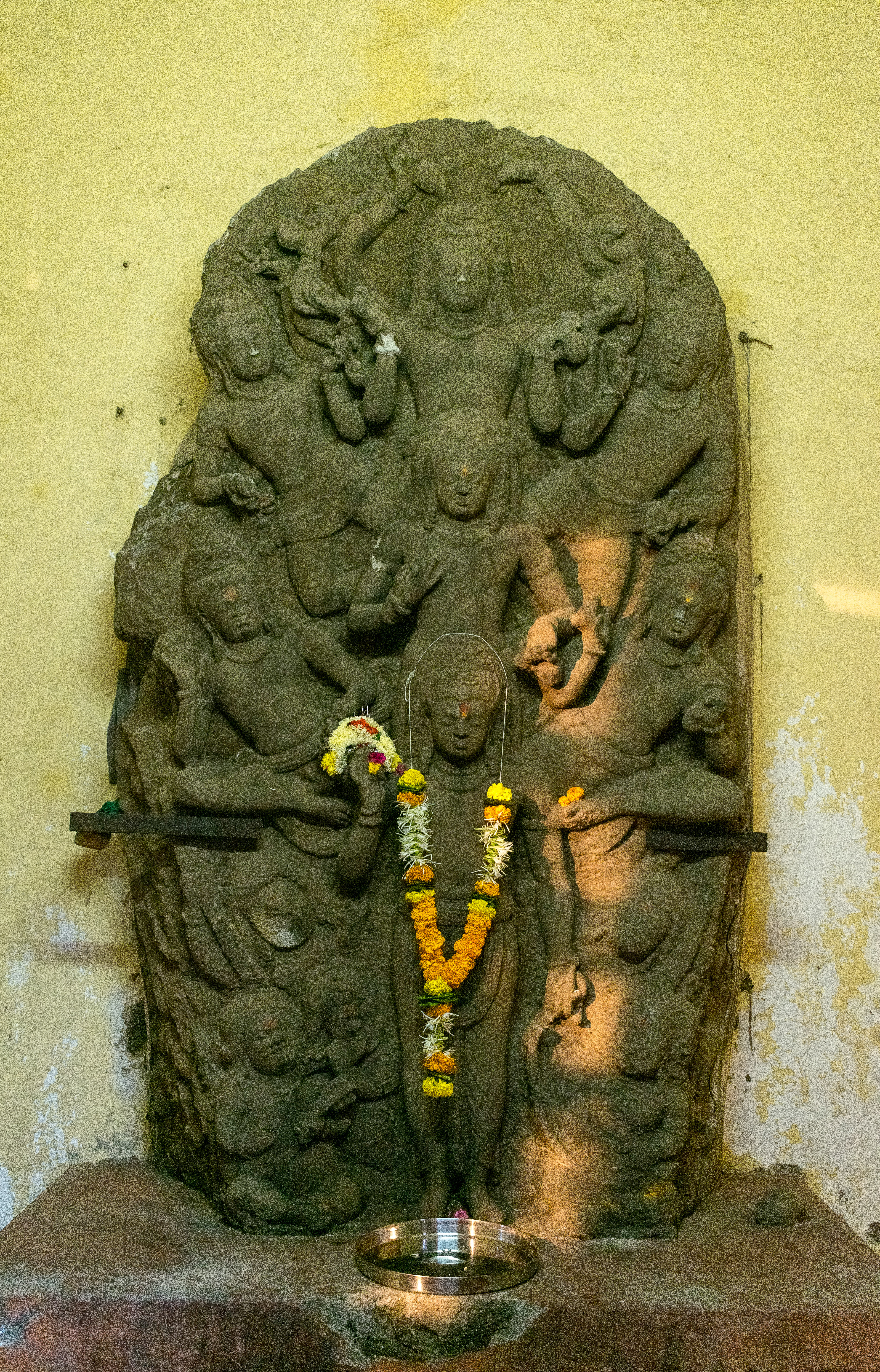 This is the "Monolithic bass relief depicting siva" localted in Parel village, Mumbai, Maharashtra. This is actually called "baradevi temple" locally. It opens only during the nine days of Navaratri, the rest of the year the blue grill door is locked. It was found in Parel in October, 1931 when road was being dug from Parel to Shivadi. It's about 3 metres high. Monument Id : N-MH-M5